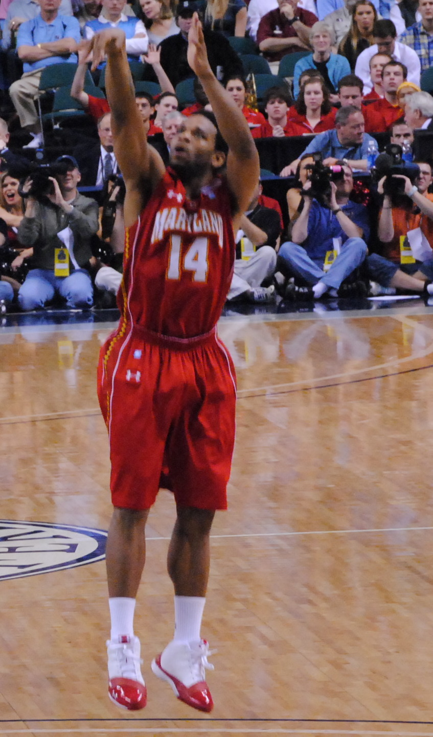 Maryland's Sean Mosley shoots in the paint